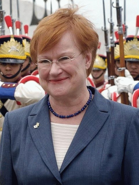 President Tarja Halonen of Finland. State visit to Brazil, October 2003